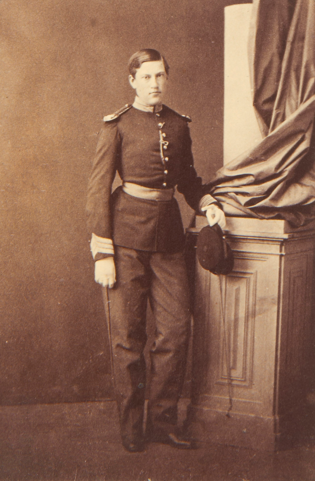 1861 photograph of Infante João, Duke of Beja, standing and wearing military uniform.